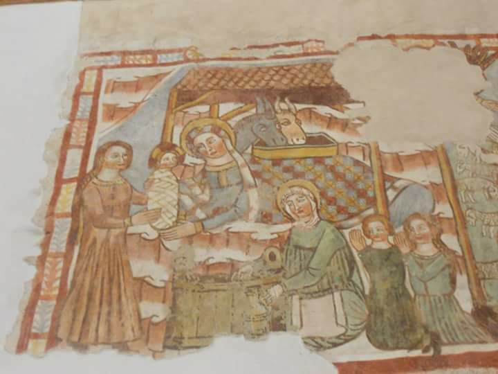 This is a photo of a monument which is part of cultural heritage of Italy.